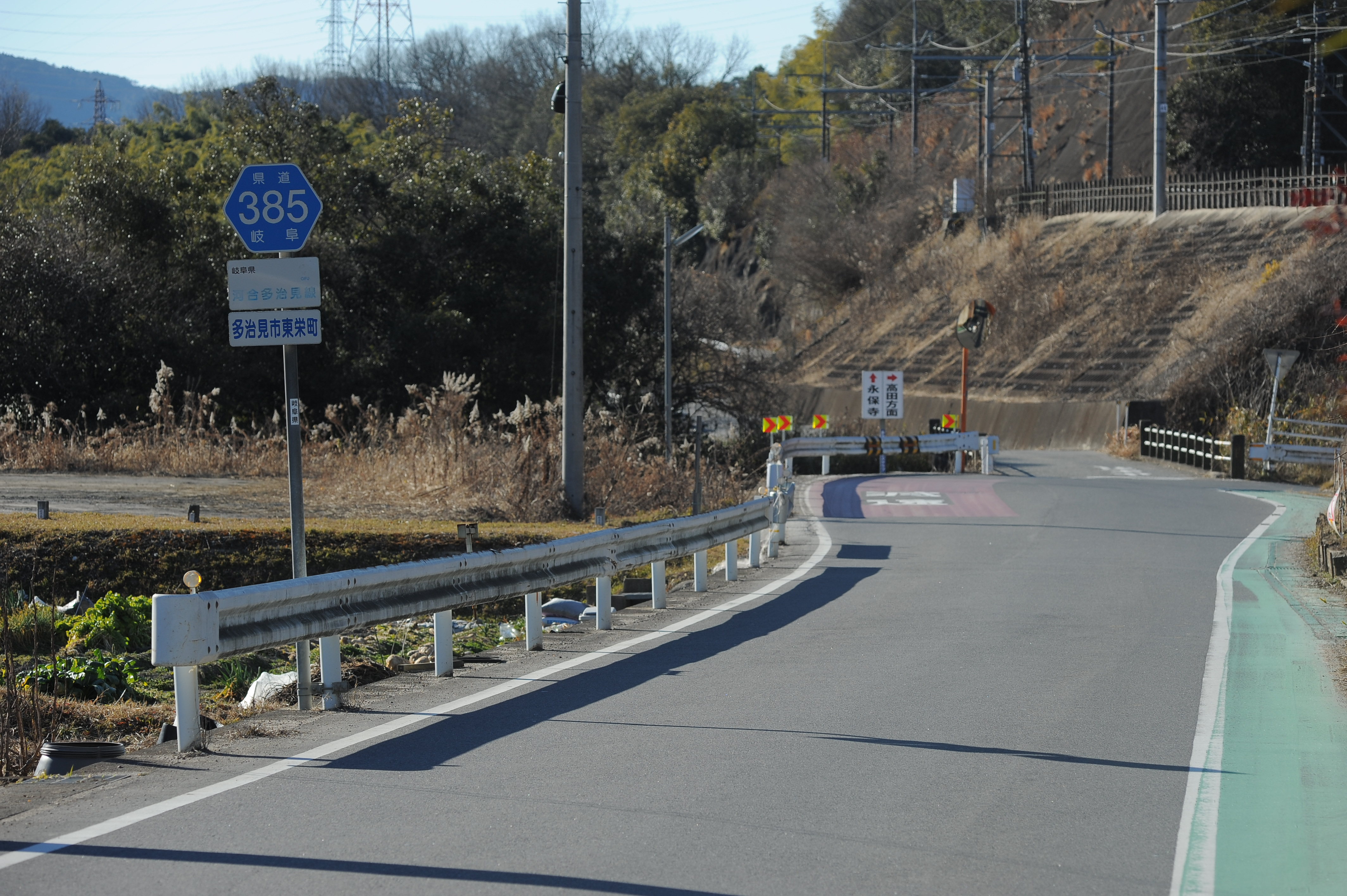 Gifu prefectural Route 385, Tajimi, Gifu